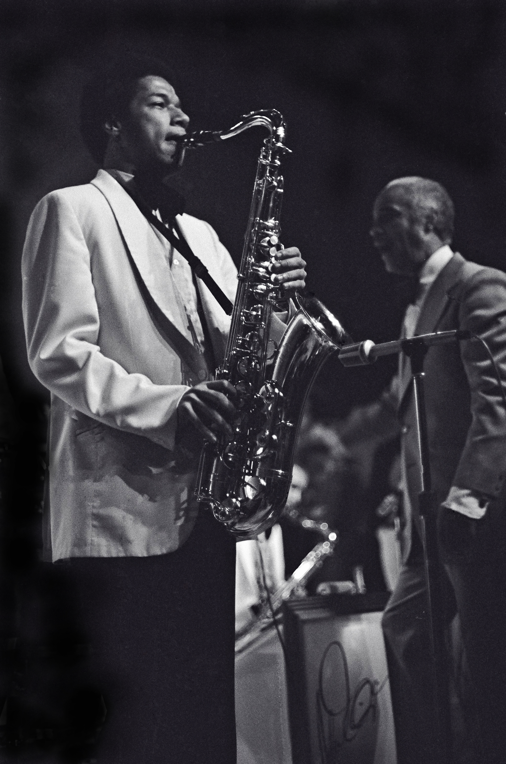 Ricky Ford (foreground) and Mercer Ellington Rochester, N.Y. 1975